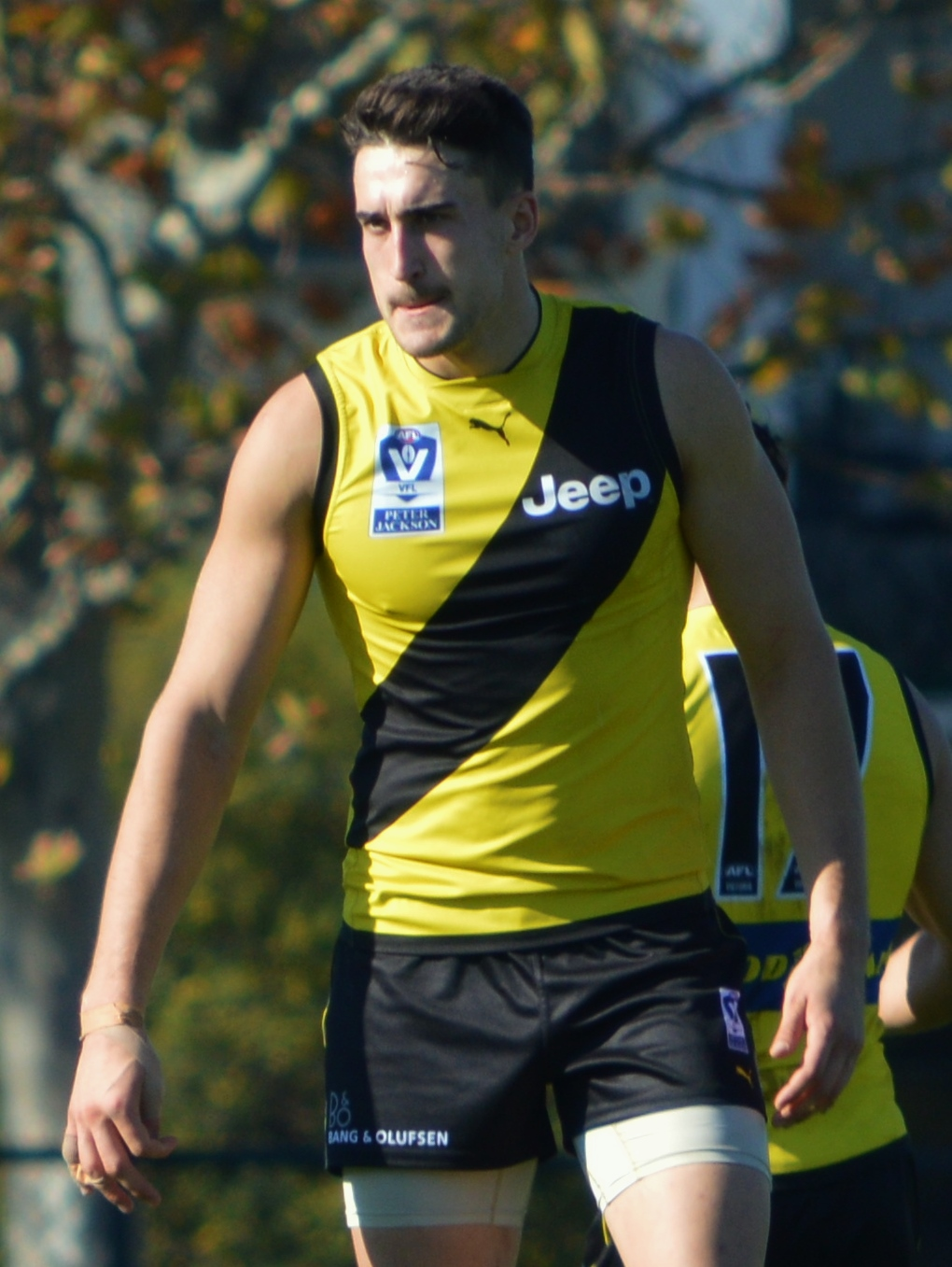 Ivan Soldo during the round 8, 2018 VFL match between Richmond and Coburg at Punt Road Oval.